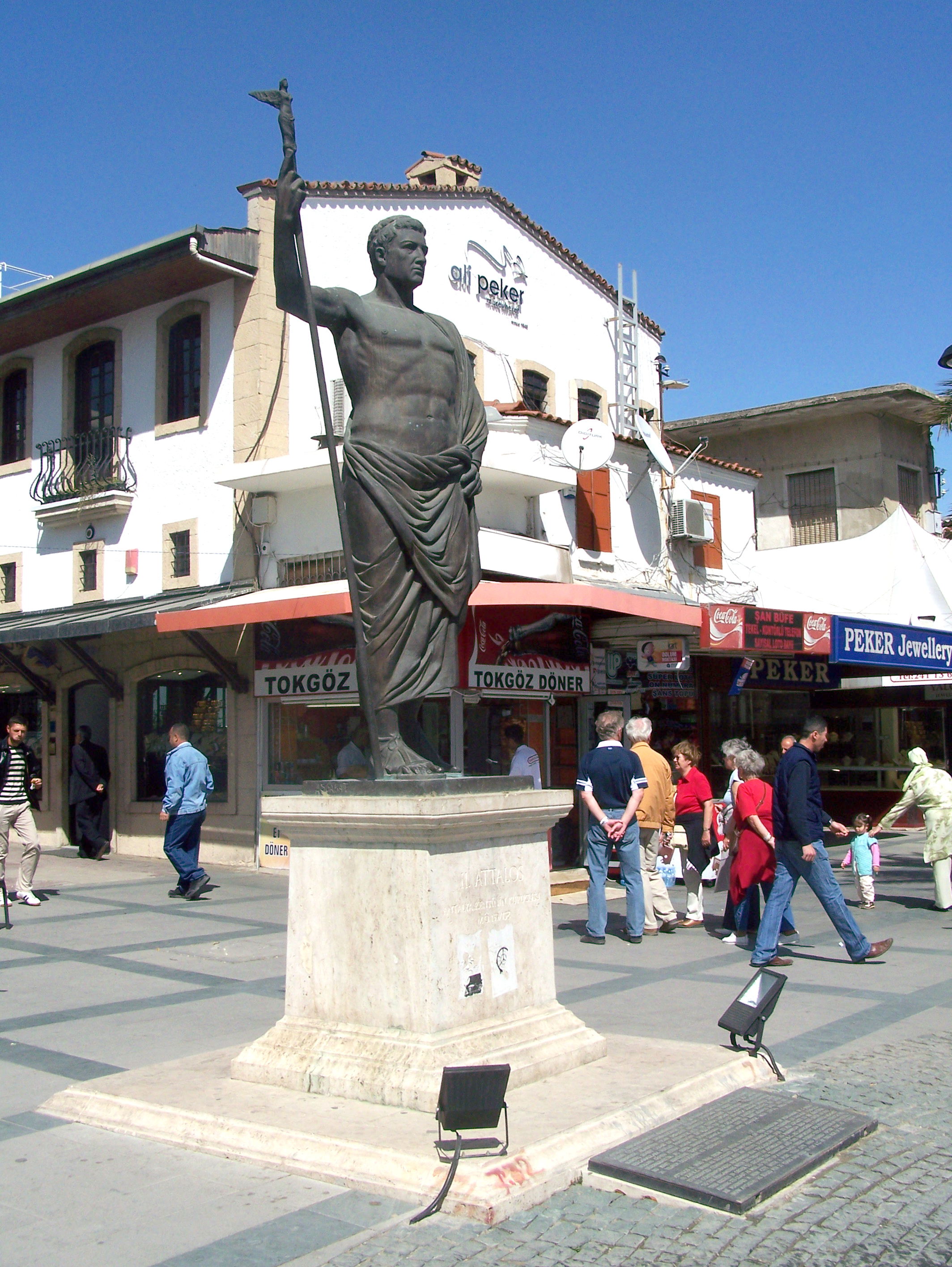 Statue of Attalos II. made by Meret Öwazov in 2003. Placed at Cumhuriyet Caddesi in Antalya.